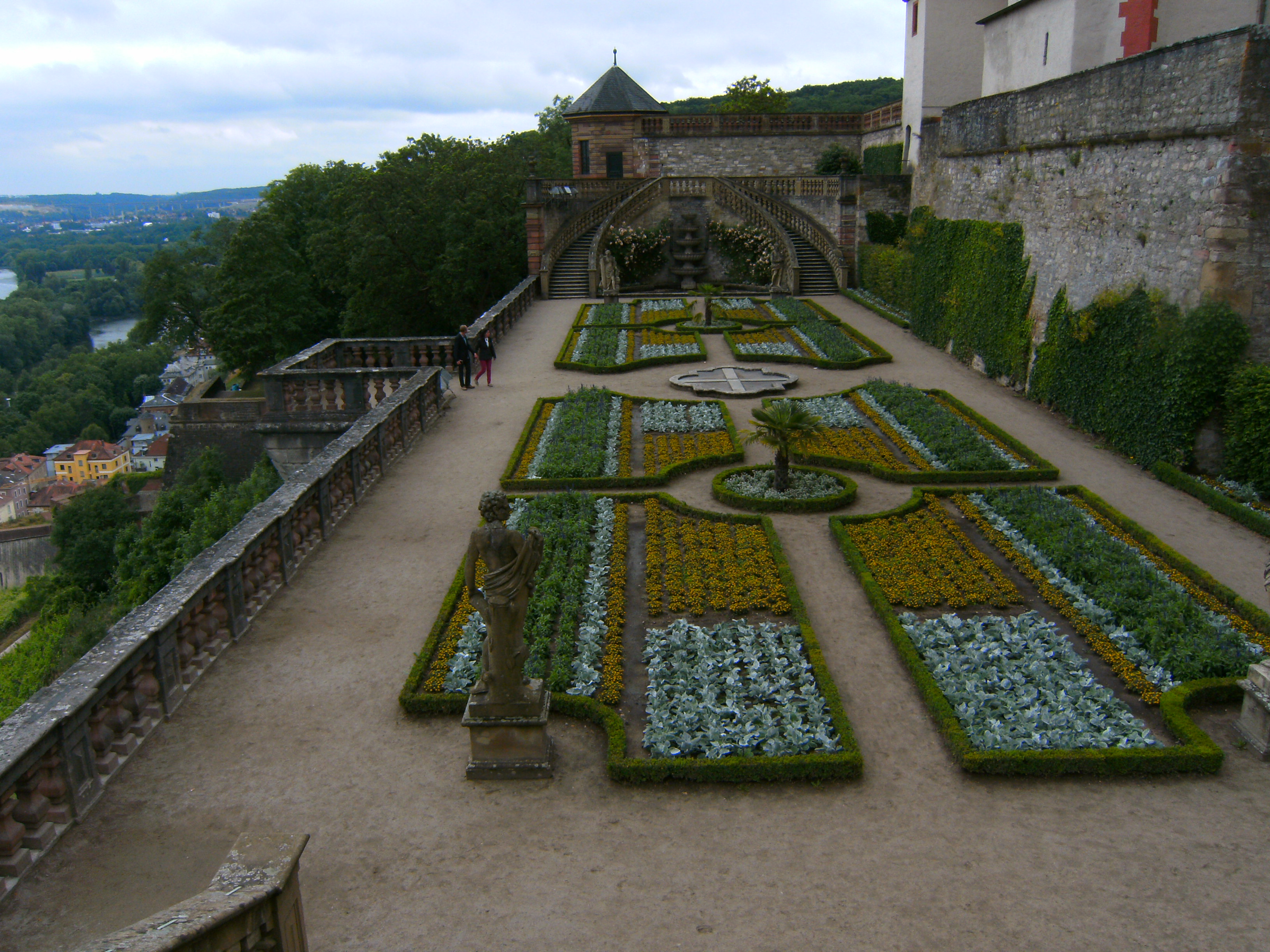 Festung Marienberg (fortress Marienberg), Würzburg, Germany: Fürstengarten (prince bishops' garden).